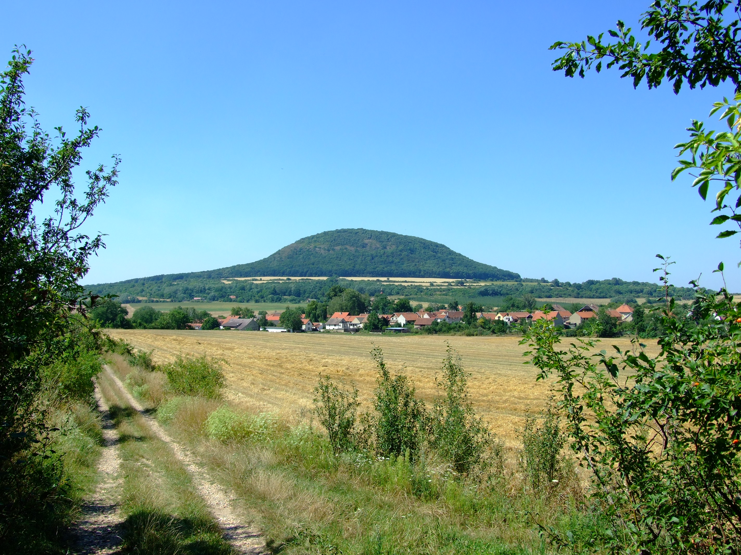 Ctiněves village in Litoměřice district, Ústí region, CZhelp